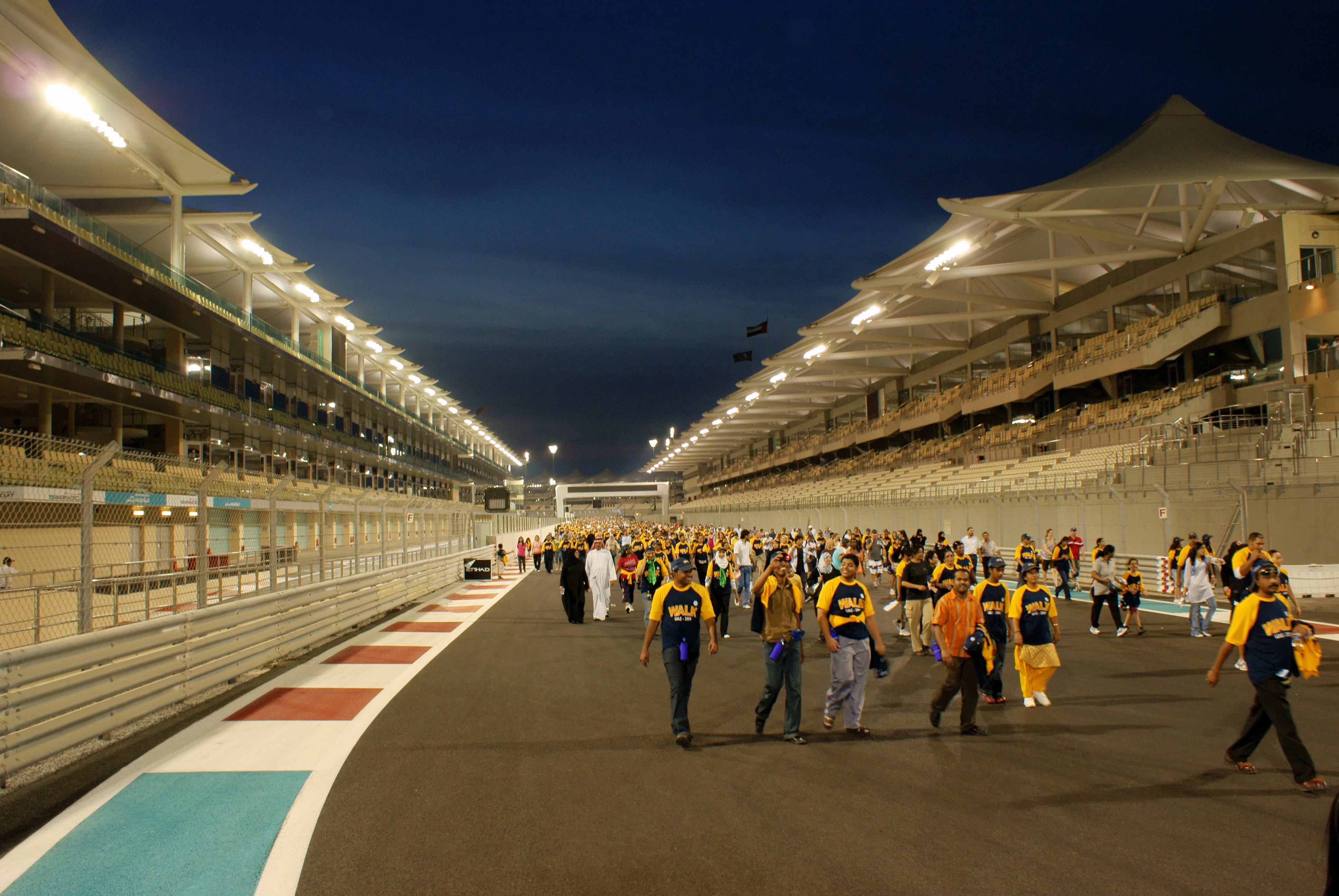 "Walkathon" in November 2009 on the Yas Marina Circuit in Abu Dhabi